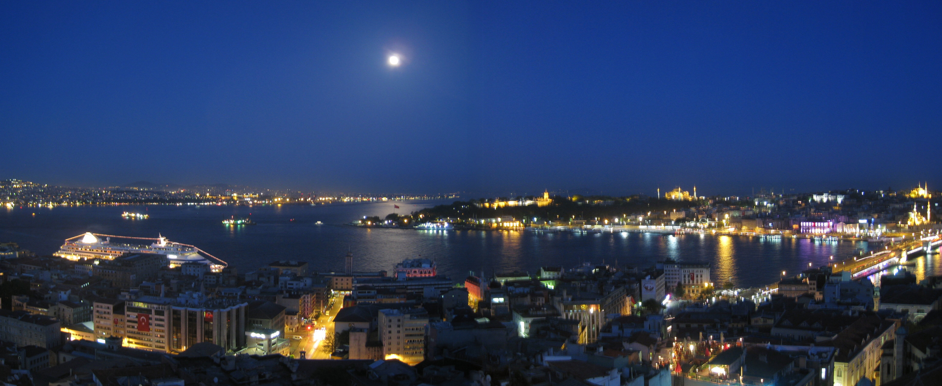 View of the Golden Horn and Bosphorus (background) from Galata Tower with full moon. The Hagia Sophia (right) is illuminated. Istanbul, Turkey